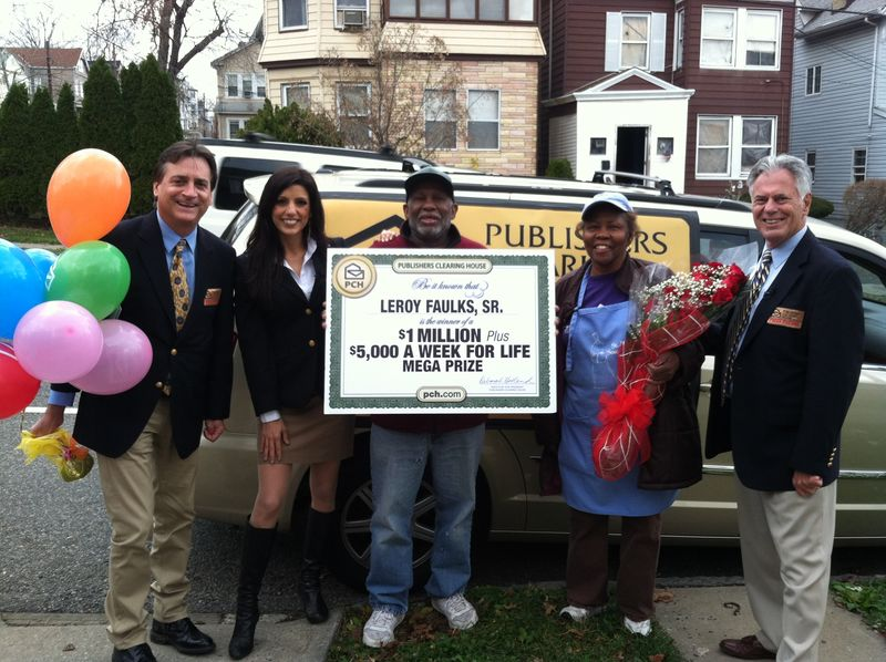 Publishers Clearing House's Prize Patrol awards LeRoy Faulks $5000 a week for life